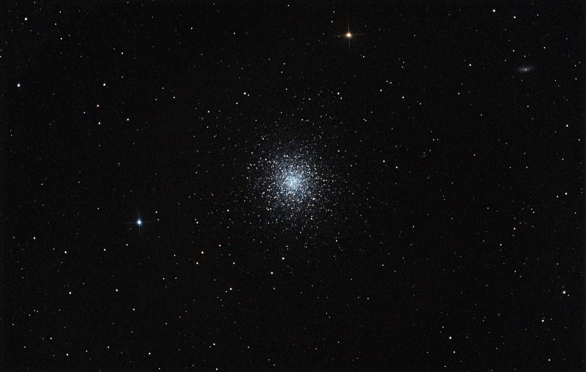 Messier 13 imaged by a DSLR camera.